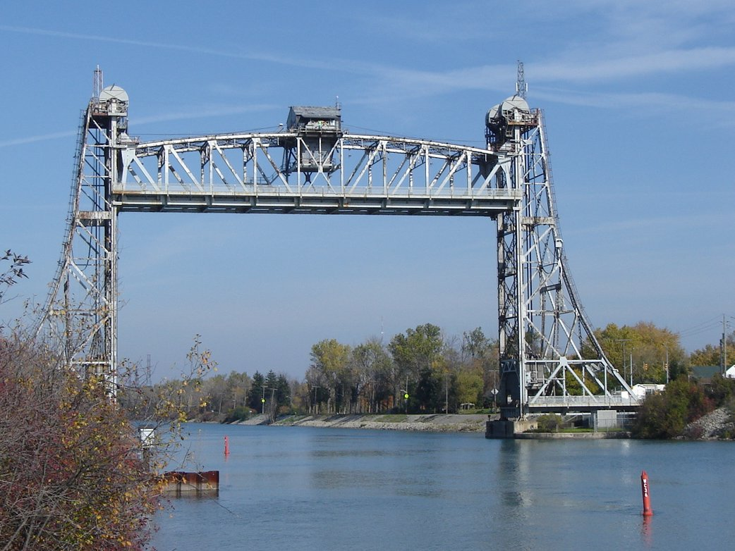 A lift bridge in Allanburg, Ontario over the Welland Canal. The 1932-built bridge was rammed in 2001 by the vessel Windoc. The ship burst into flames. The bridge was repaired.